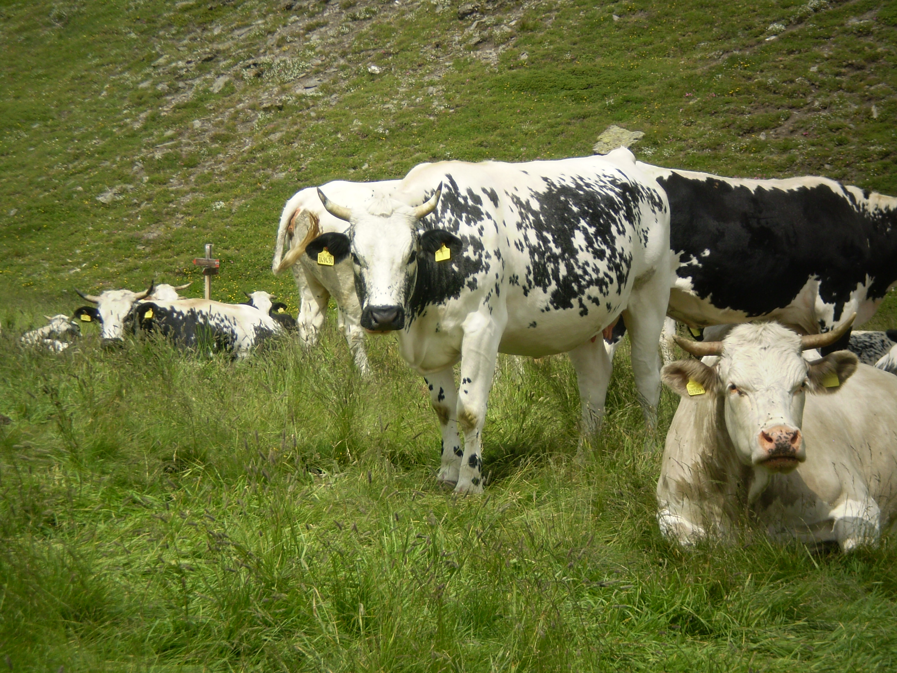 Cattle at Bout du Col, near Prali, in Valle Germanasca